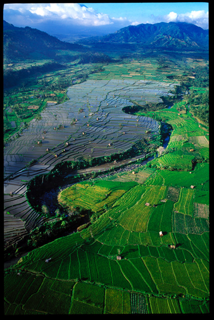 Balinese rice terraces showing the precise management of water by the subs.